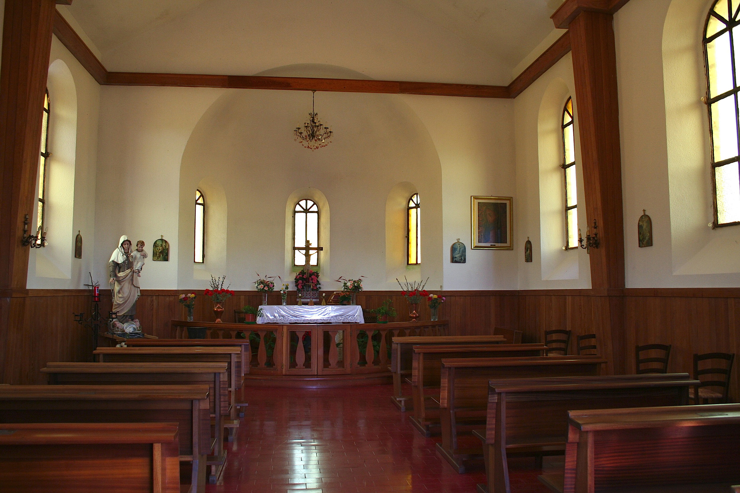 Churc of Beata Vergine del Carmelo in Forca Canapine (Ascoli Piceno)